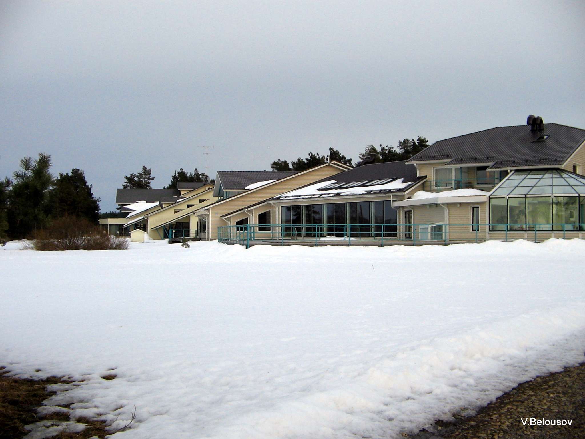 Fra Mare